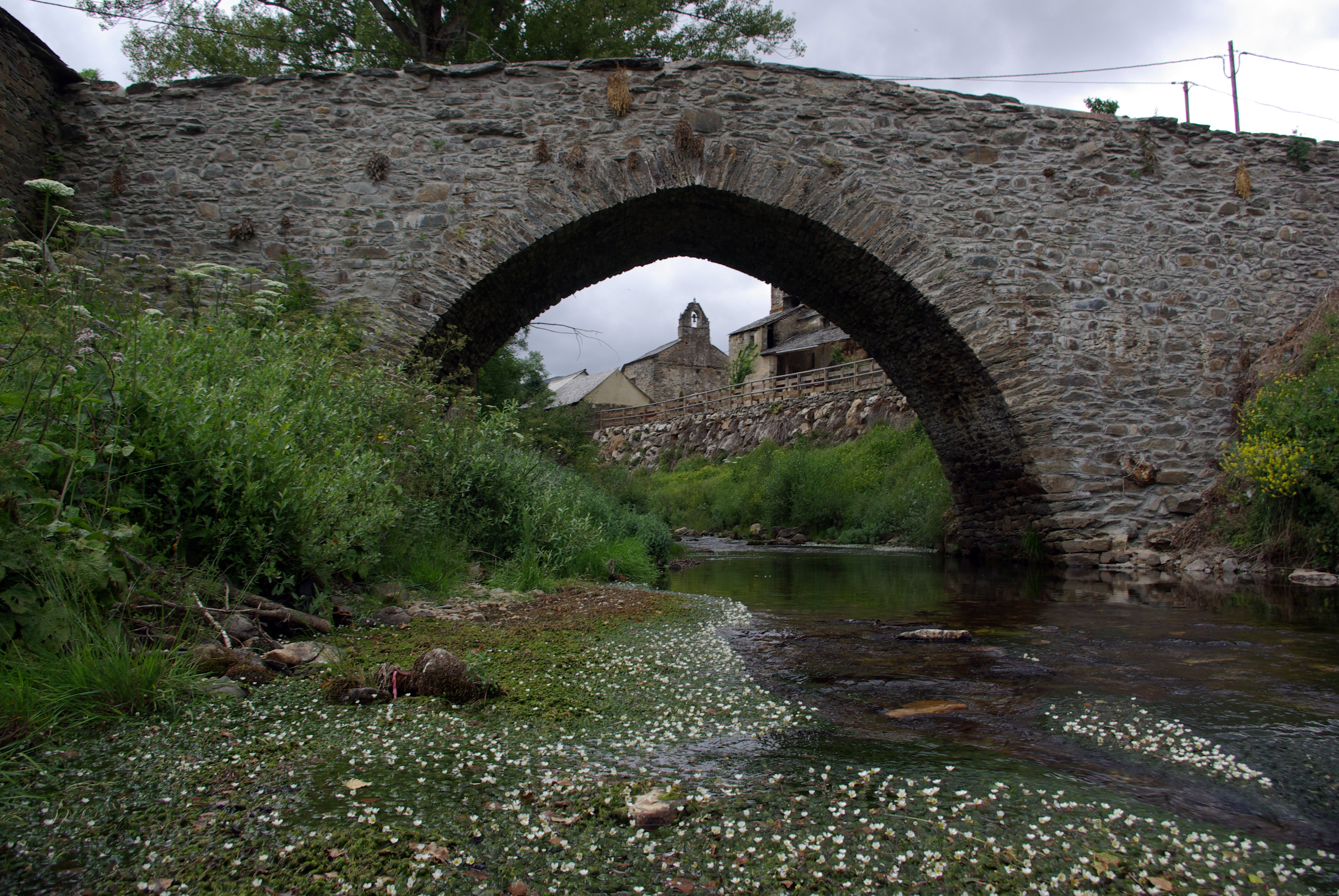 Medieval bridge in Barrio de la Puente (Murias de Paredes, León, Spain)